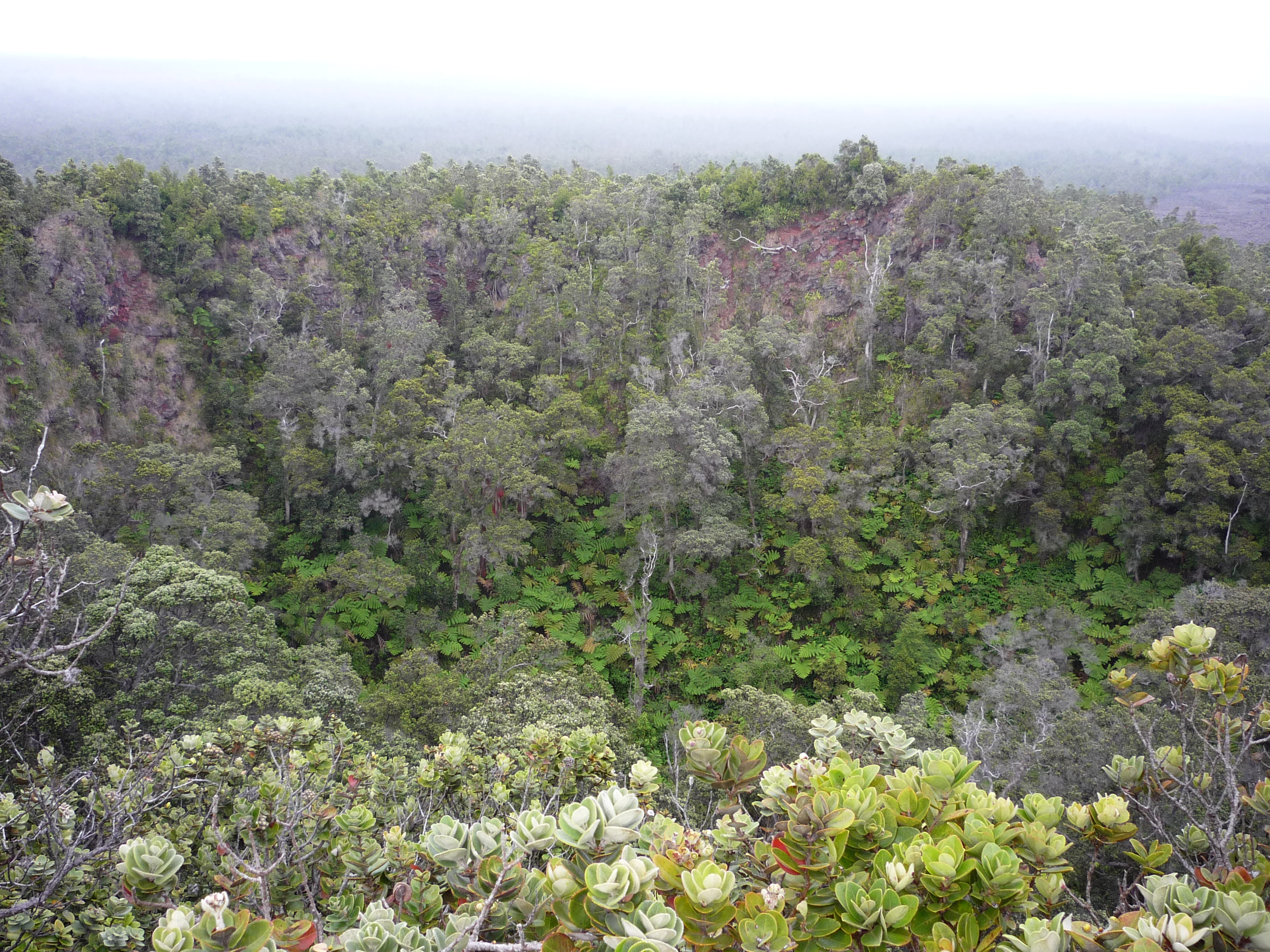 Looking down into the Pu'u Huluhulu crater.